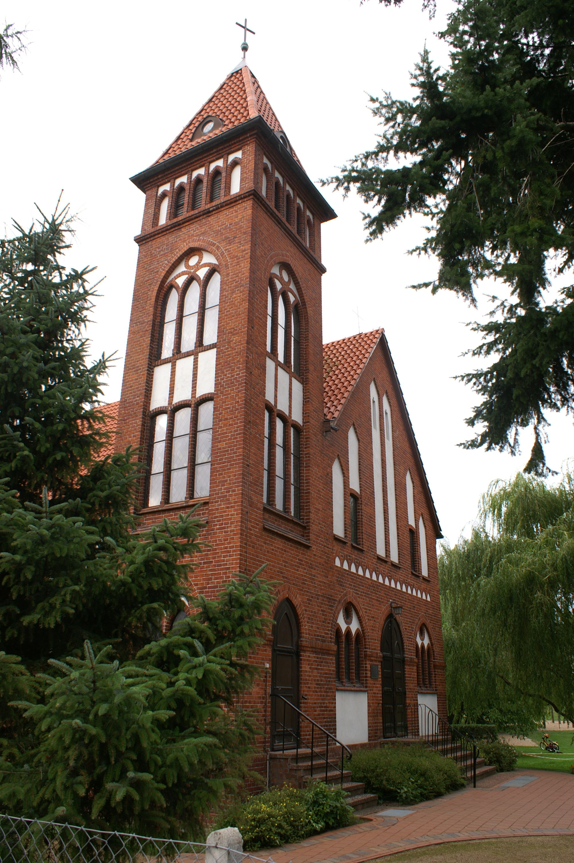 Catholic Church „Herz Jesu“ in Wolgast (Mecklenburg-Vorpommern), Germany